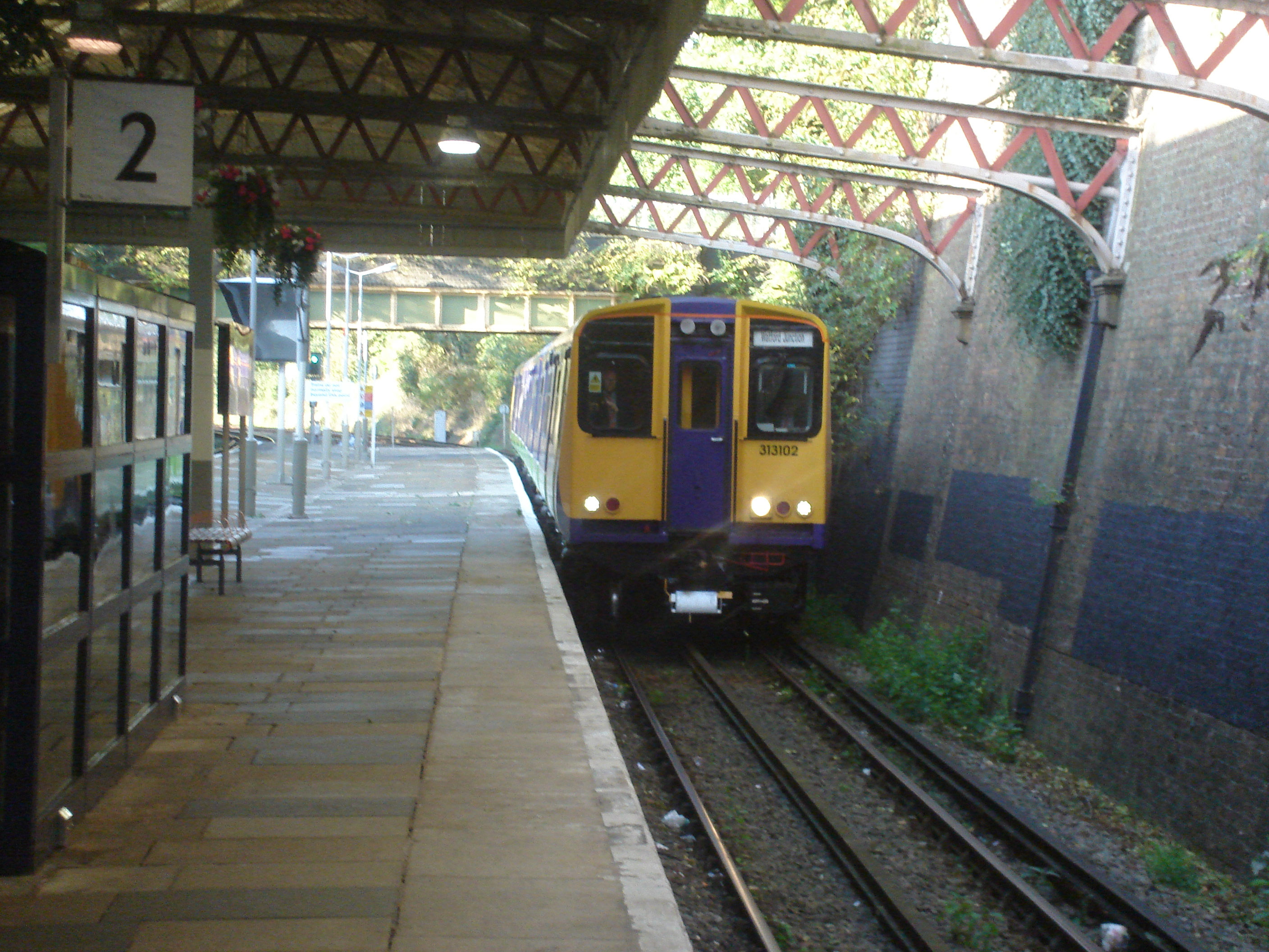 London Overground train for Watford Junction at Watford High Street Station